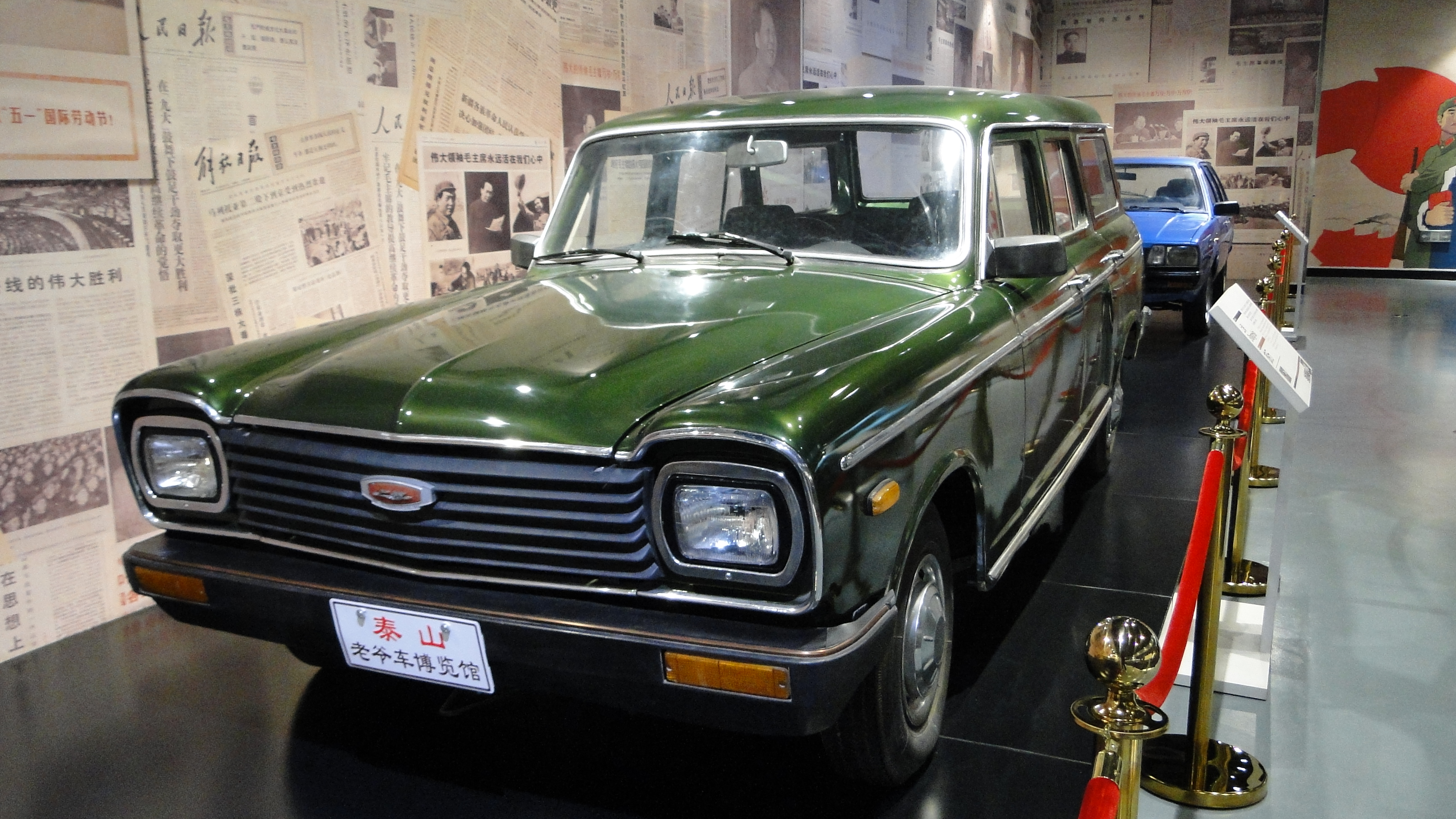 TAMM 上海旅行